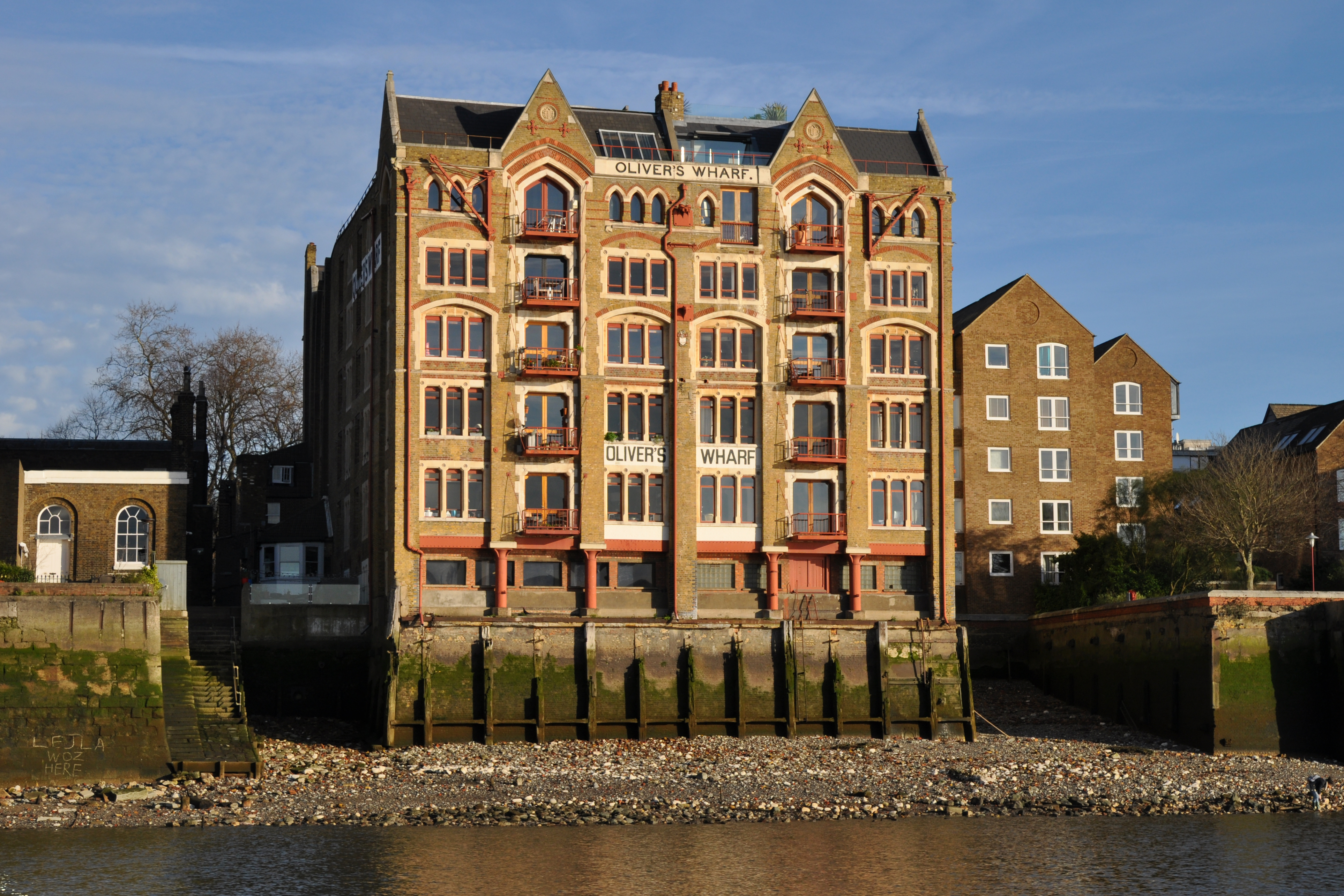 Oliver's Wharf Wikidata has entry Q26318839 with data related to this item. Wapping Old Stairs Wikidata has entry Q26318836 with data related to this item.